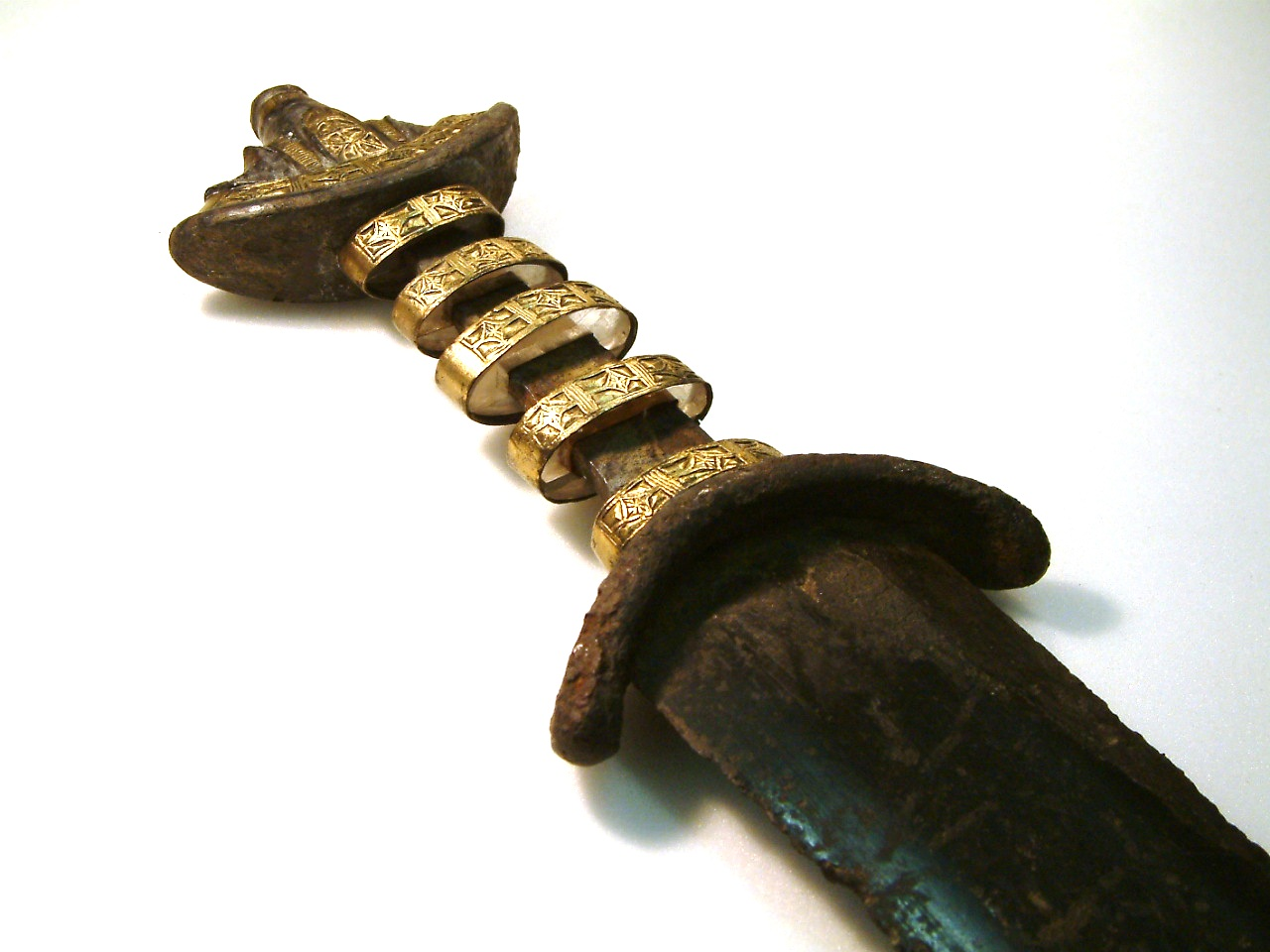 Iron blade with five silver bands on grip and silver plaques on pommel. Two edged blade, pattern welding, pommel decorated with silver plates with geometric decoration, five silver bands in grip, grip missing. Elaborate pommel with large central lobe topped with a circular button below which is a silver band decorated with vertical lines, on both sides of the lobe there are small plaques with a geometric circular design. Running vertically on the shoulders of the pommel either side of the lobe are two thin silver bands decorated with horizontal lines. The shoulder beyond these are concave and curve to meet another silver band which runs along the top of the upper guard, again decorated in a geometric pattern. The tang is visible through the silver bands that remain from the grip - which too bear the geometric pattern - between there it can be seen to reduce steeply in size as it reaches the pommel. The guard is thick but short, curving at an angle similar to that of the pommel it is slightly deformed on one arm. The blade by the hilt is black and reasonably intact, it still holds a sharp edge, and the cutting edge is chipped as well as corroded. The condition of the blade becomes worse toward the tip and the wide shallow fuller or plane which runs along the blade becomes obscured in the damaged portion, the blade is also reasonably loose in its hilt.